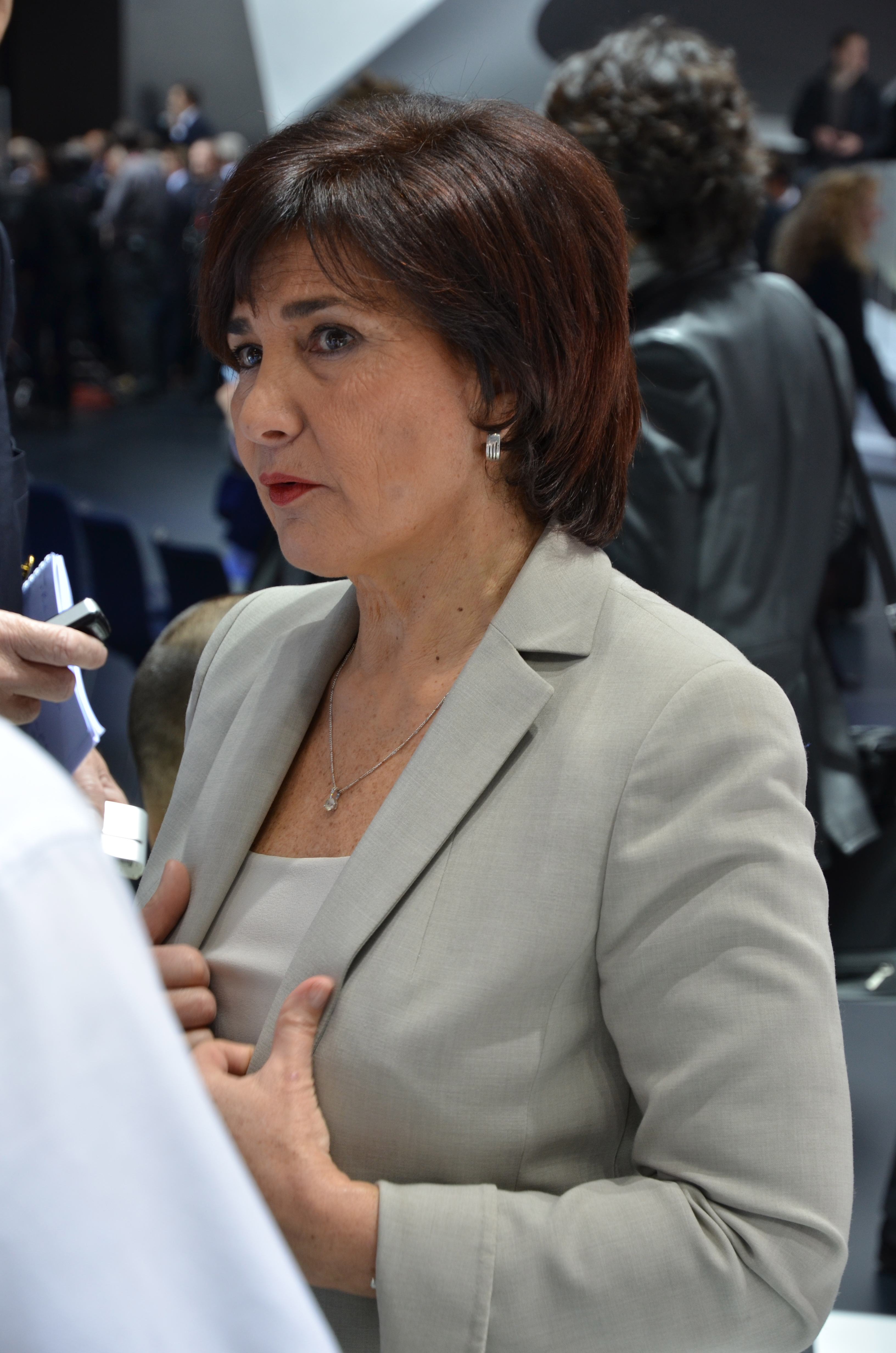 Michèle Mouton at the Geneva Motor Show in 2011.